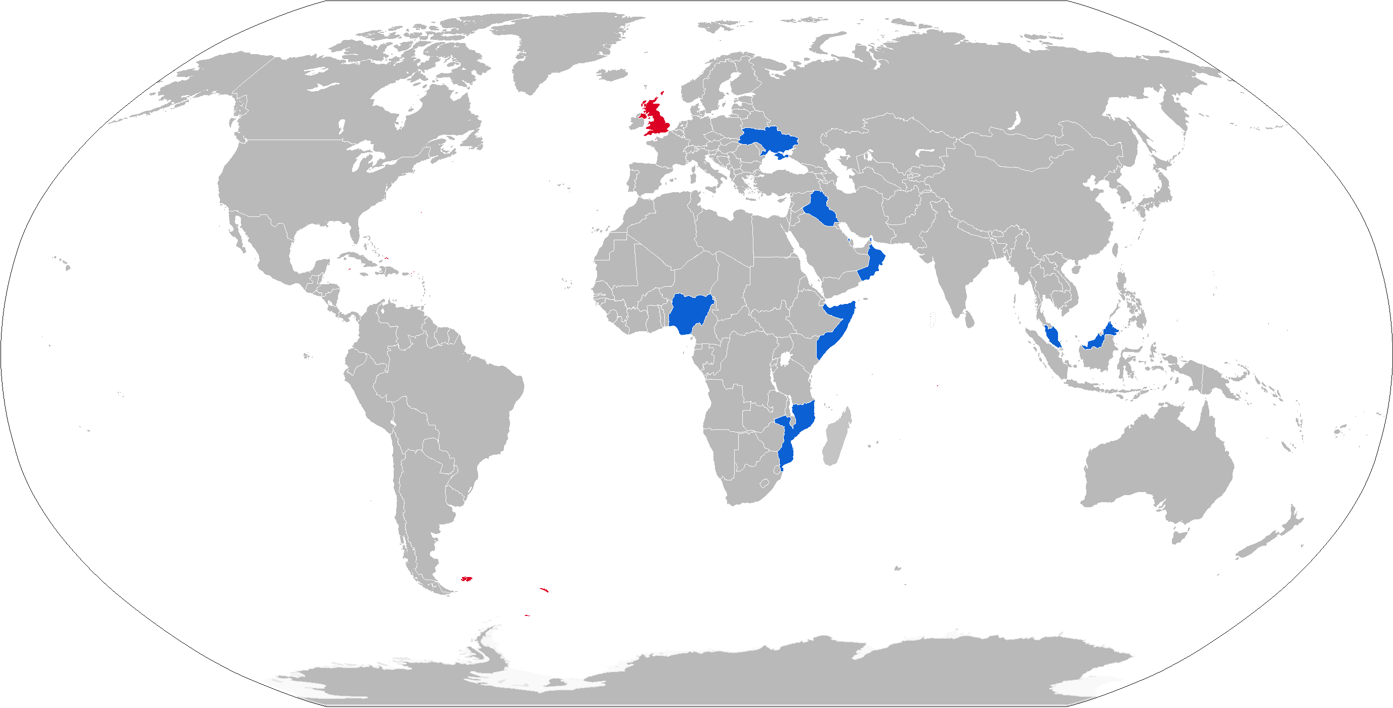 Map of Saxon operators in blue with former operators in red